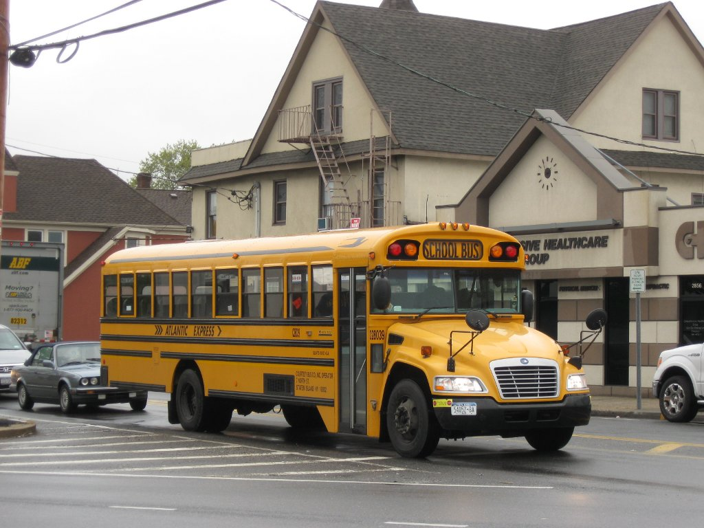 Atlantic Express Blue Bird Vision #028039 operates through Oceanside, New York.